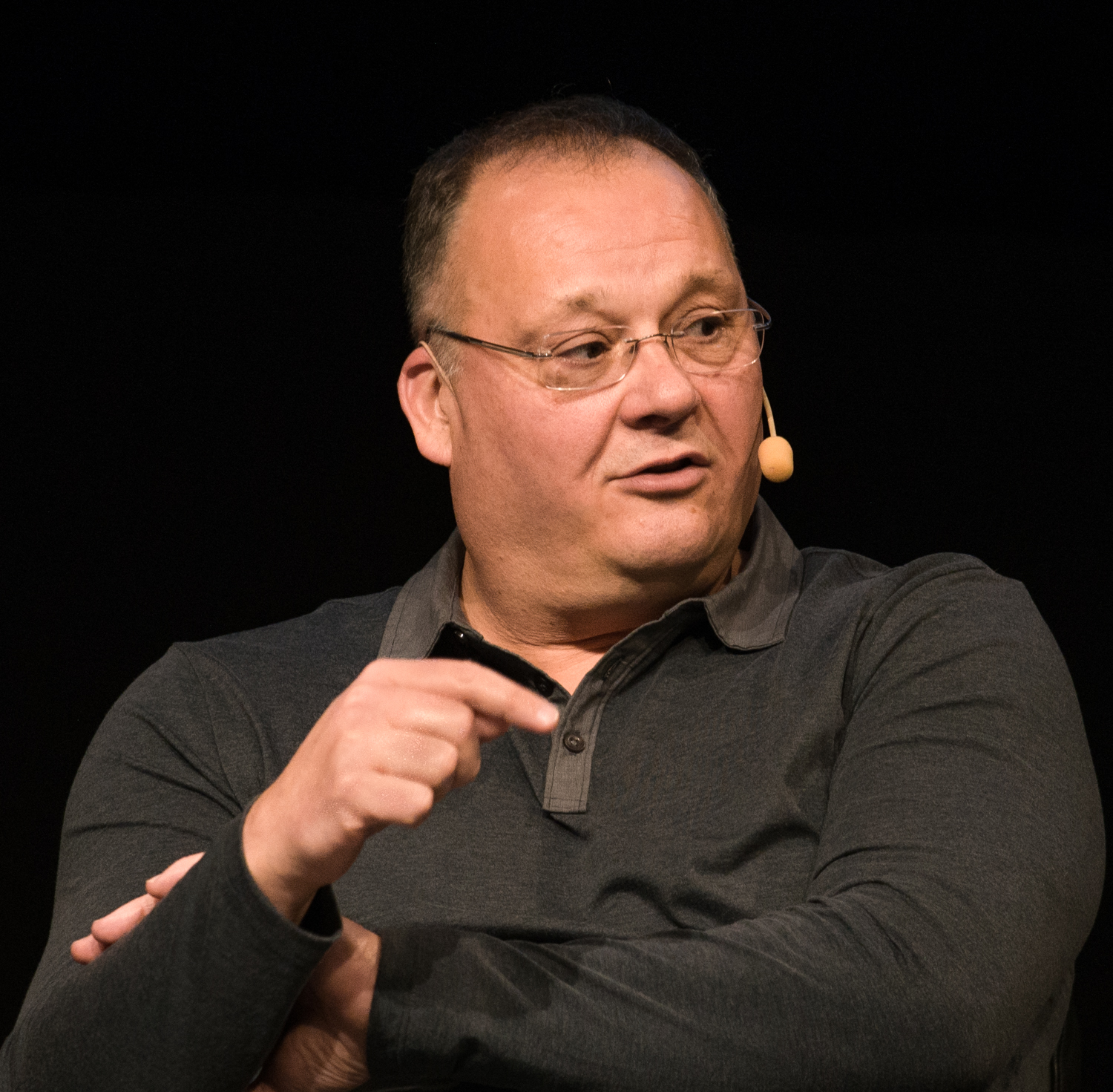 Cas Mudde at Forum / Debate in KulturhusetStadsteatern in Stockholm on March 5, 2018 in a conversation about how liberal democracies can defend themselves against extremism without giving up basic values.